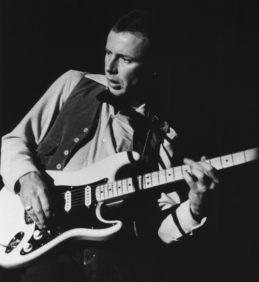 Australian guitarist, Jimmy Doyle live in concert with Ayers Rock